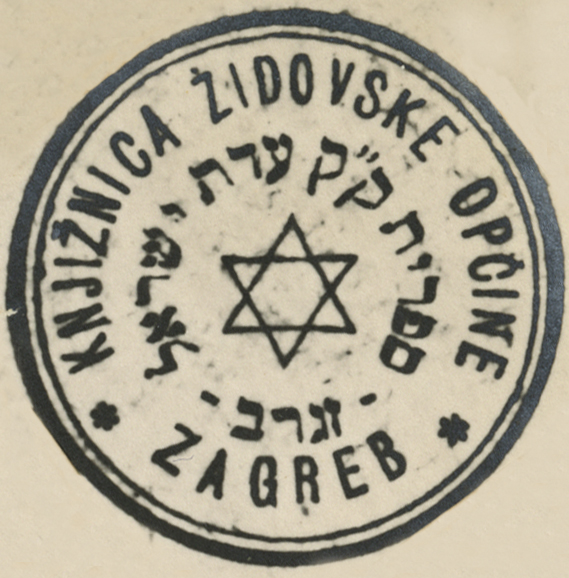 Library of Eretz Yisrael The Sacred Community (Kehila Kedosha) of Zagreb After Nazi forces occupied Yugoslavia in 1940, Zagreb was made the capital of the puppet-state the Independent State of Croatia which was controlled by the Croatian fascist party Ustaša. Under fascist rule the Jewish community of Zagreb, along with its libraries and synagogues, was largely destroyed. This book stamp is from a book looted by the Nazis and sorted by Colonel Seymour Pomrenze, one of “the Monuments Men,” at the Offenbach Archival Depot. There are two scrapbooks of archival markings from the books sorted at the Offenbach Depot in the Seymour Pomrenze Collection held by the American Jewish Historical Society (Call number P-933) There is a finding aid for the collection here The digitized scrapbooks are available here and here. For more information on this project check the Center’s blog: Dr. Mitch Fraas, Acting Director of the Digital Humanities Forum at the University of Pennsylvania Libraries' Special Collections Center is working on a similar project for the German book stamps based on NARA microfilm of the volumes the American Jewish Historical Society currently holds. See The Center for Jewish History would like to acknowledge the following: The American Jewish Historical Society, who graciously allowed the use of their archival materials and digital content; Mitch Fraas, Acting Director of the Digital Humanities Forum at the University of Pennsylvania Libraries' Special Collections Center, for his data and technical assistance in this project; David Rosenberg, Reference Services Research Coordinator, and Melanie Meyers, Senior Reference Services Librarian for Special Collections, for managing and creating the digital map; and Reference Services Intern Ilya Slavutskiy for his work on translating and mapping. For copyright information, click here